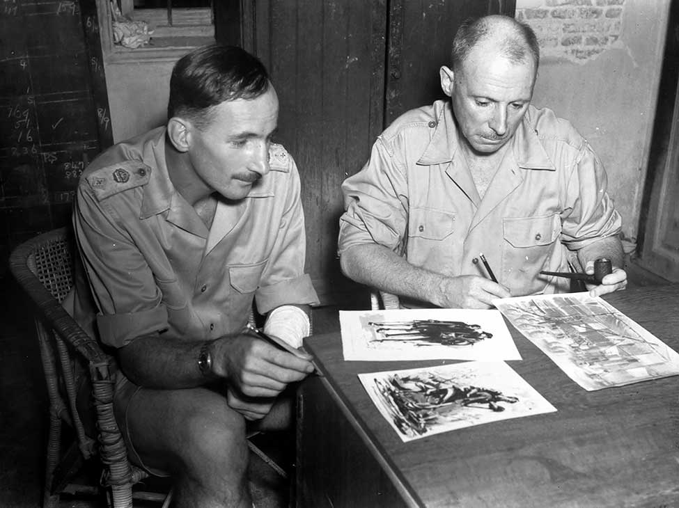 Lieutenant-Colonel E.E. ‘Weary’ Dunlop and Lieutenant-Colonel Albert Coates at Nakhon Pathom hospital camp, Thailand. Both are looking at sketches made by British artist Jack Chalker. While Dunlop was the senior officer at Nakhon Pathom, he deferred to Coates’ extensive medical knowledge. [AWM 117361]